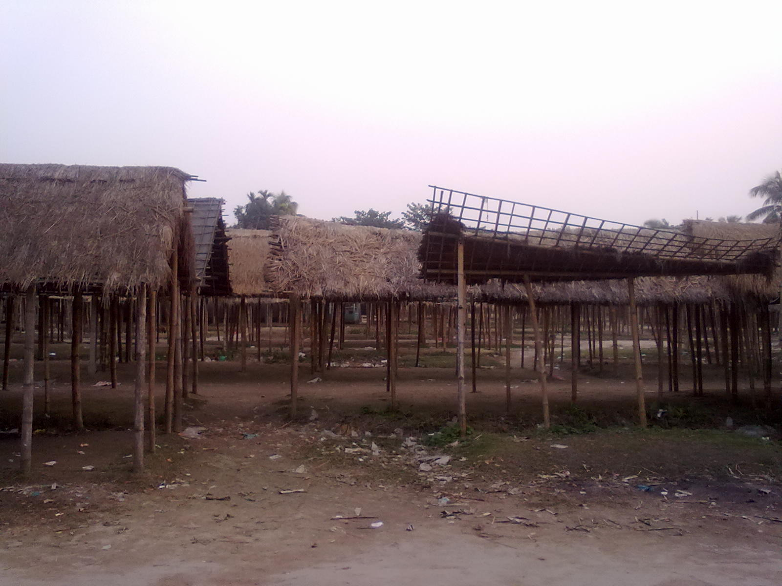 A view of the village Sunday Marketplace of Kalaigaon অসমীয়া: কলাইগাঁওৰ দেওবৰিয়া বজাৰখোলাৰ এটি দৃশ্য়